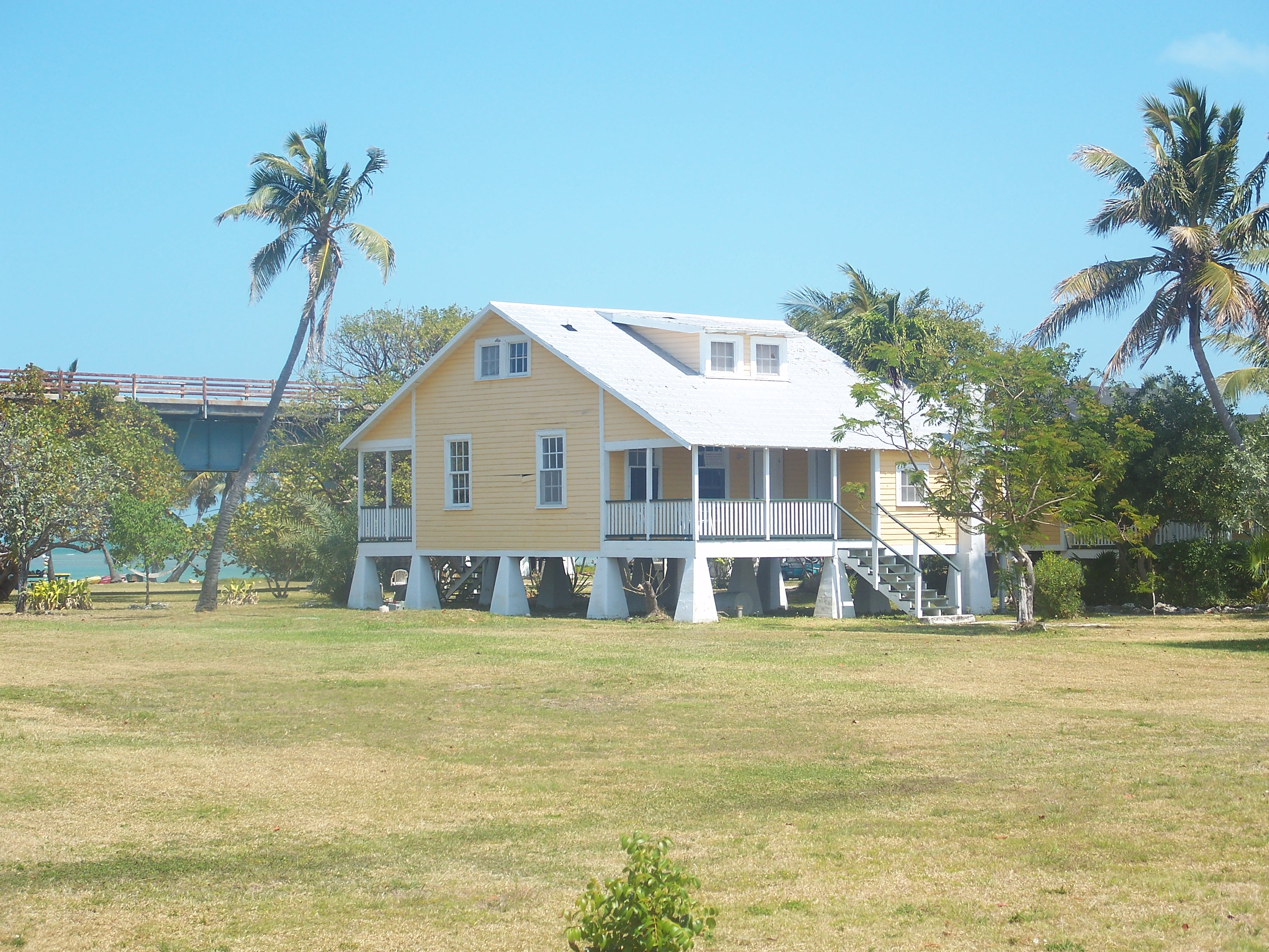 Pigeon Key, Florida: Pigeon Key Historic District: Dormitory